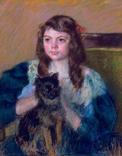 Françoise Holding a Little Dog